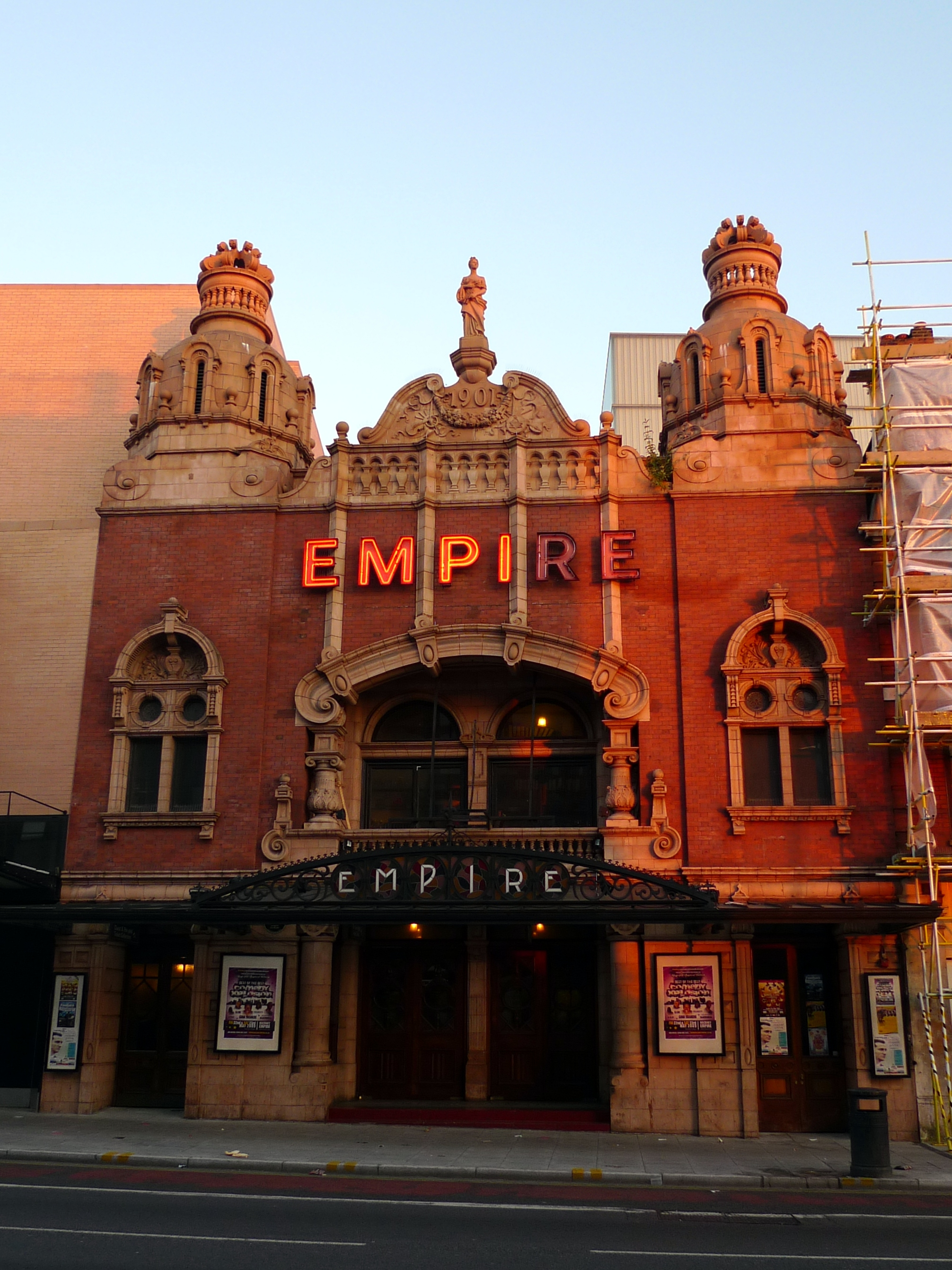 Hackney's premier venue, a striking building and puts on a variety of acts. There's a modern extension to the left with a dominating sign and the Marie Lloyd Bar. For a while in the mid-20C it was a bingo hall, and in its earlier years it did show films (though always primarily a theatre). Address: 291 Mare Street. Owner: (website). Links: Randomness Guide to London Wikipedia Qype Cinema Treasures